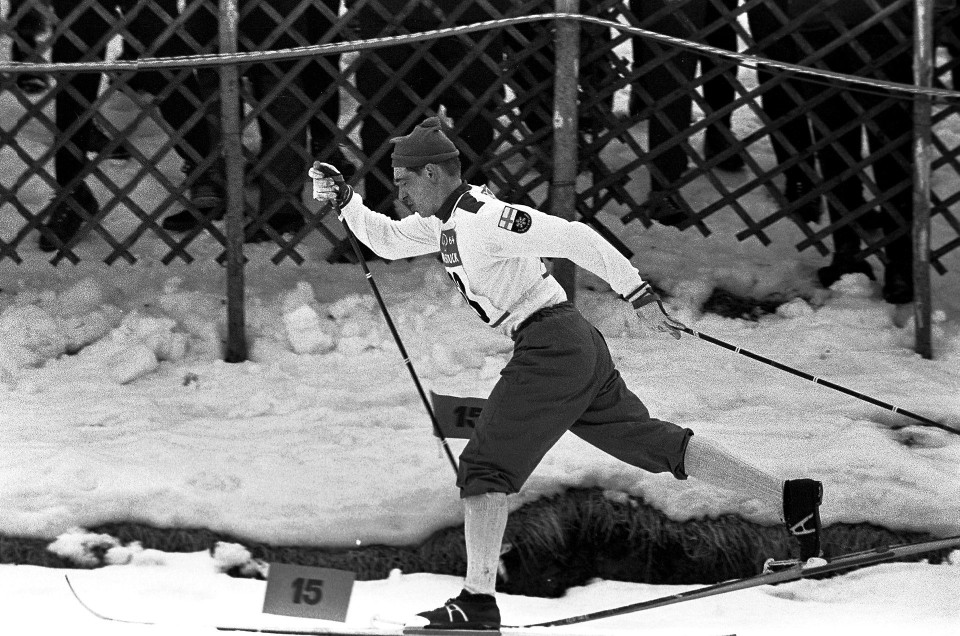 Photograph of the Finnish skier Eero Mäntyranta (1937–2013) at Innsbruck Olympic Games 1964.